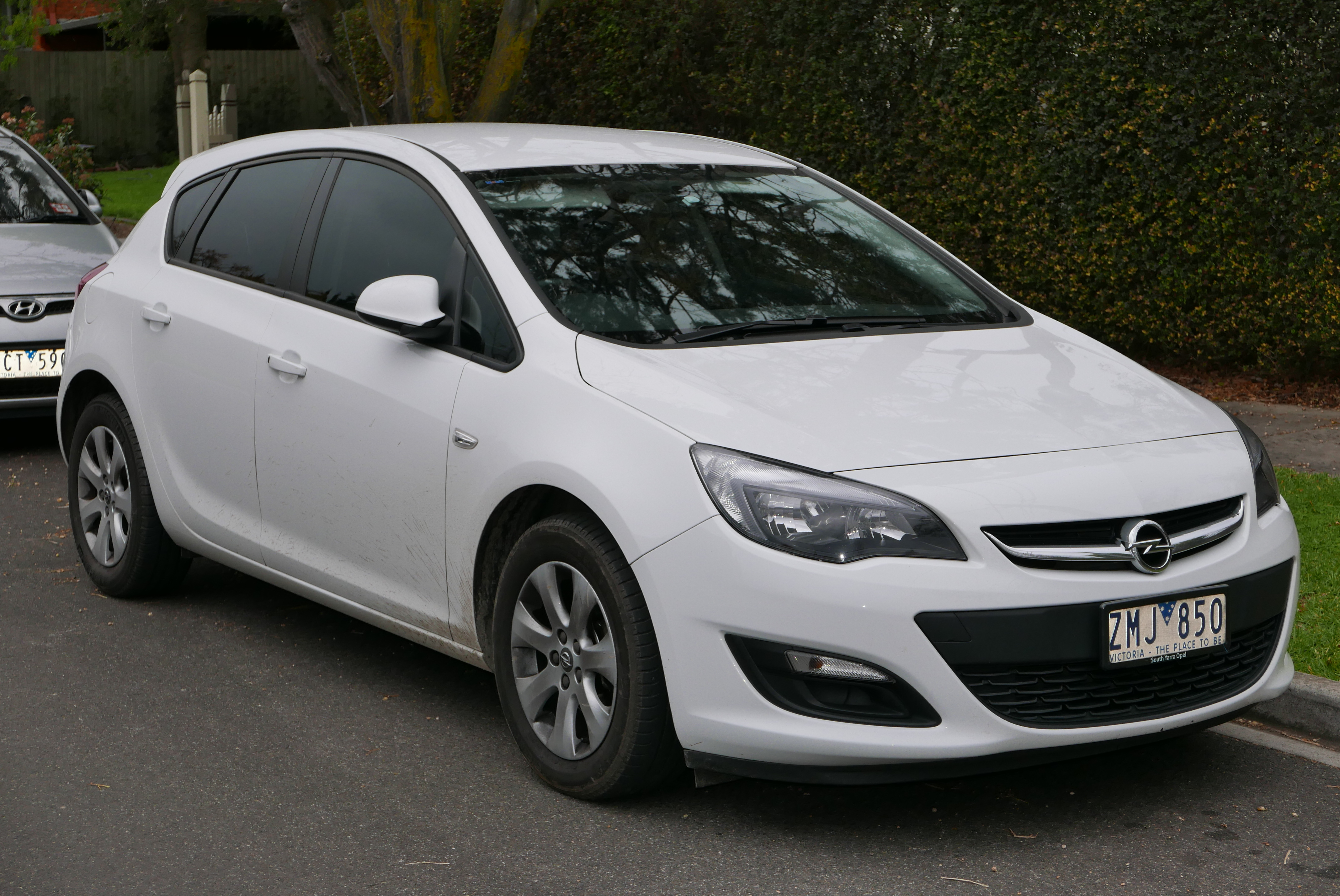 2012 Opel Astra (AS) 1.4 Turbo 5-door hatchback. Photographed in Ivanhoe, Victoria, Australia. Vehicle registration enquiry resultsJurisdictionVictoriaRegistrationZMJ850Chassis codeW0LPD6EC3DG000871Engine codeA14NET19AX8038Compliance date2012-10Year of manufacture2012